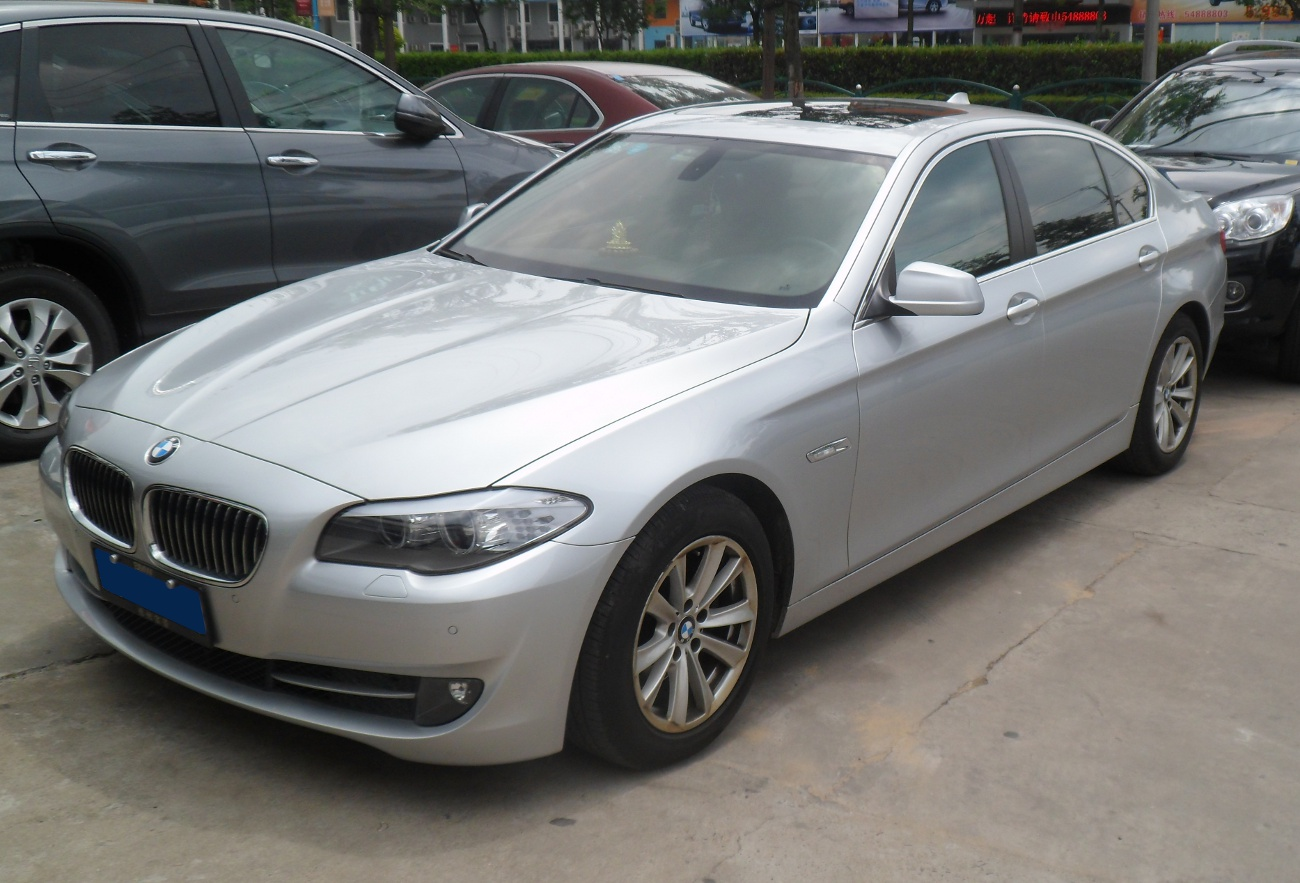 BMW 5-Series F18 Li photographed in Shanghai, China.